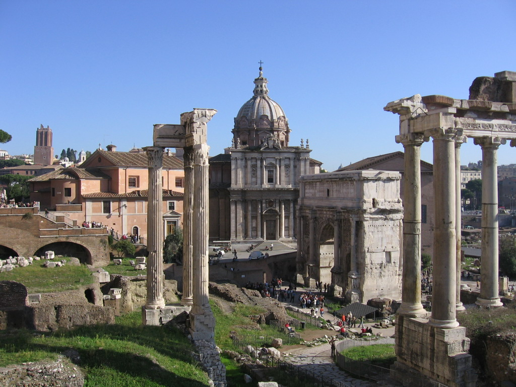 Western end of the Roman Forum, featuring the Temple of Saturn (far right, foreground), Arch of Severus, Senate House (behind Arch), Temple of Vespasian (left, foreground), and the scant ruins of the Temple of Concord (behind the Temple of Vespasian).